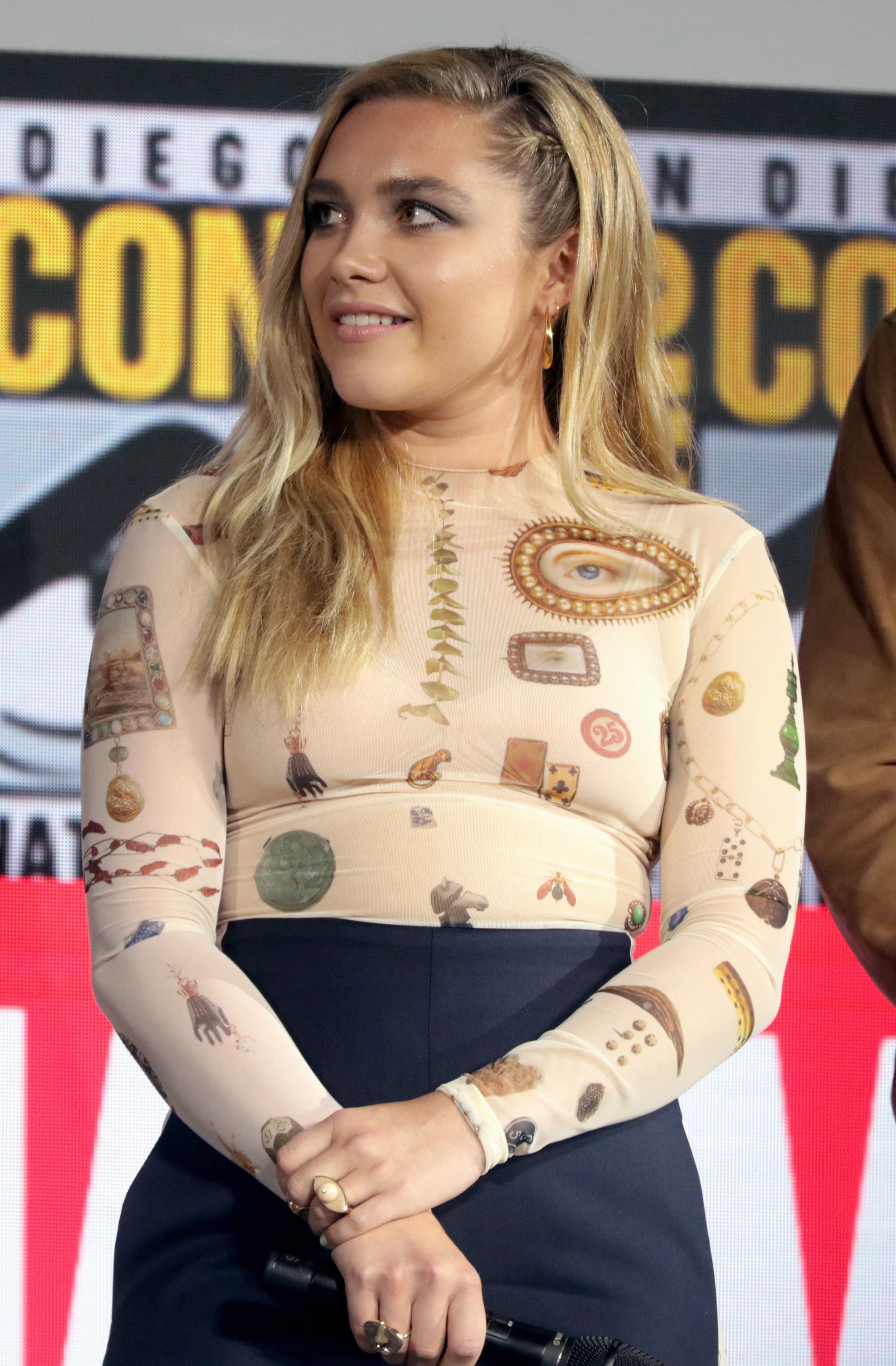 Florence Pugh speaking at the 2019 San Diego Comic-Con International in San Diego, California.